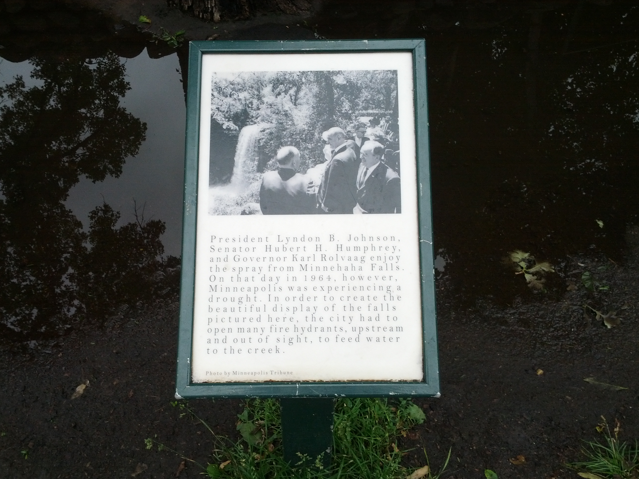 Minnehaha Falls on June 22, 2013 - Picture 2 of 6